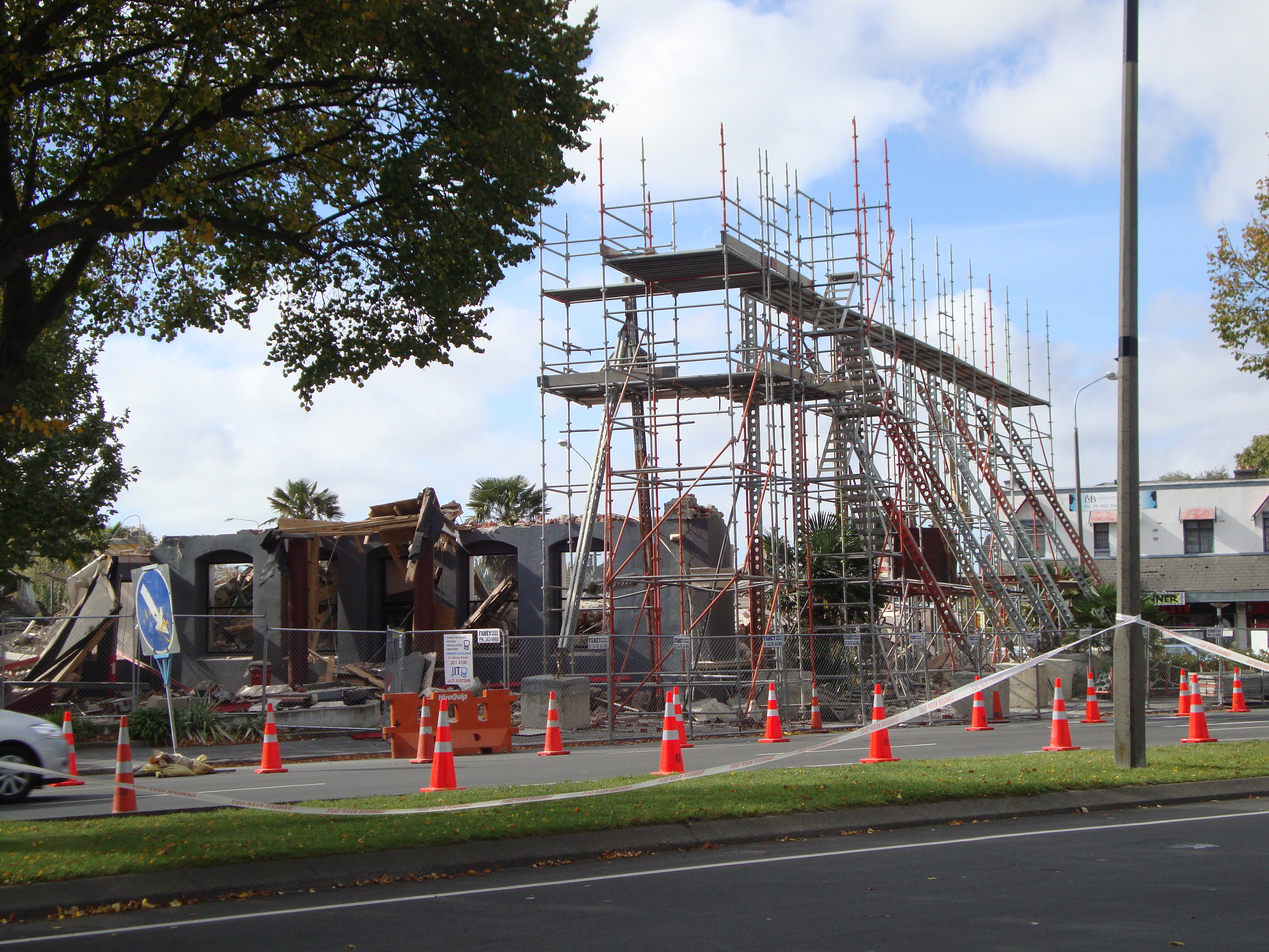 Carlton Hotel the day after its demolition.